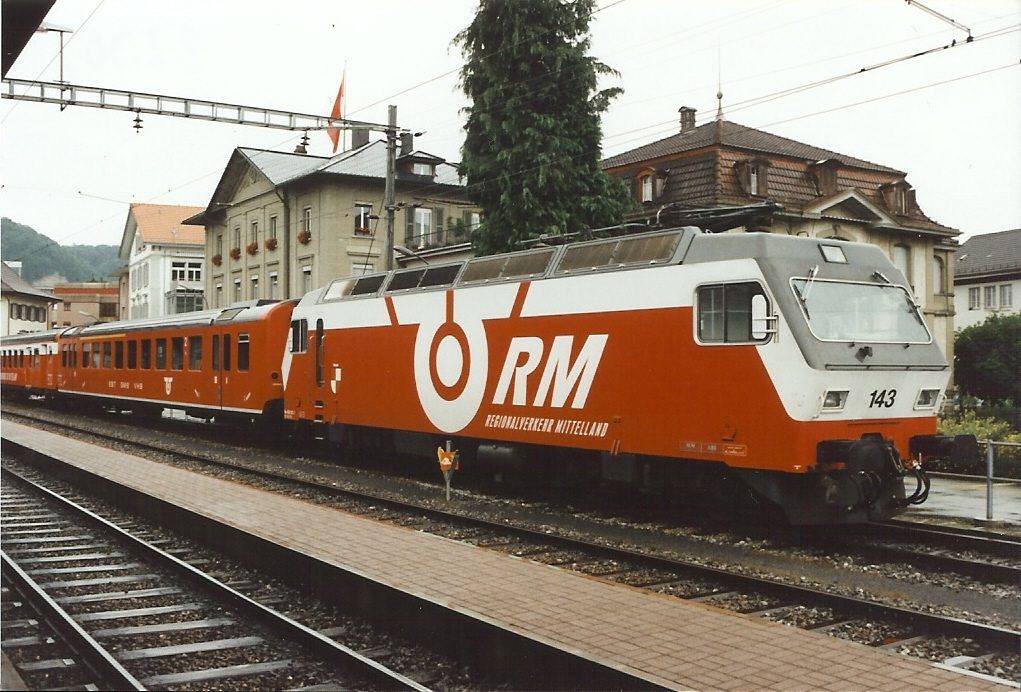 RM Re 456 143 in its original livery, designed by Luigi Colani, in Burgdorf